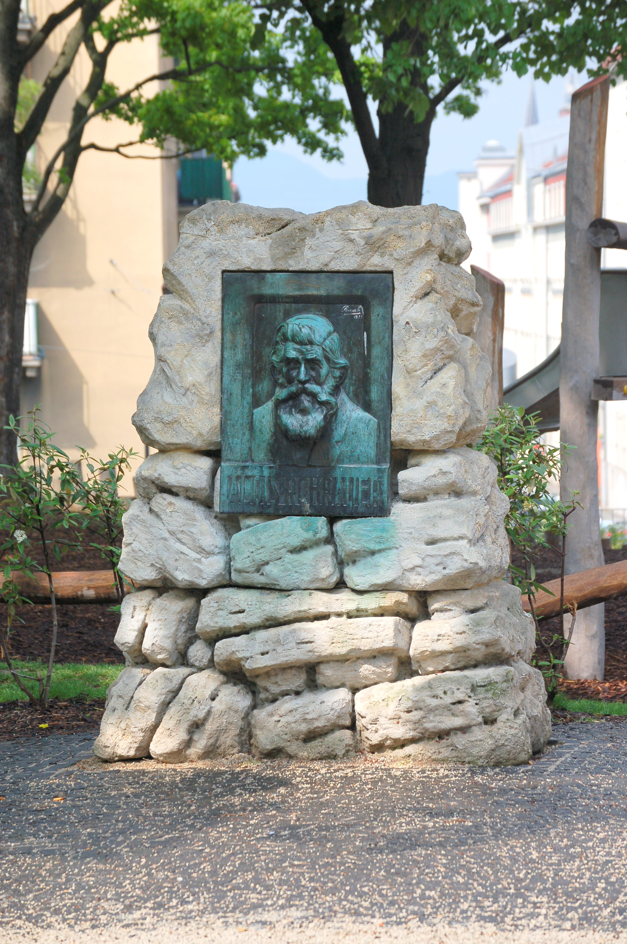 Memorial for Alois Rohrauer, in Rohrauer park, Vienna's 15th district